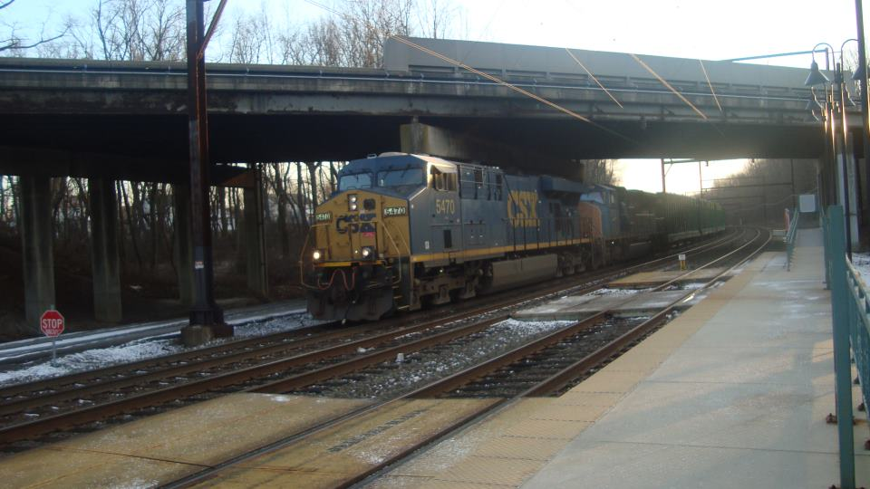 Woodbourne